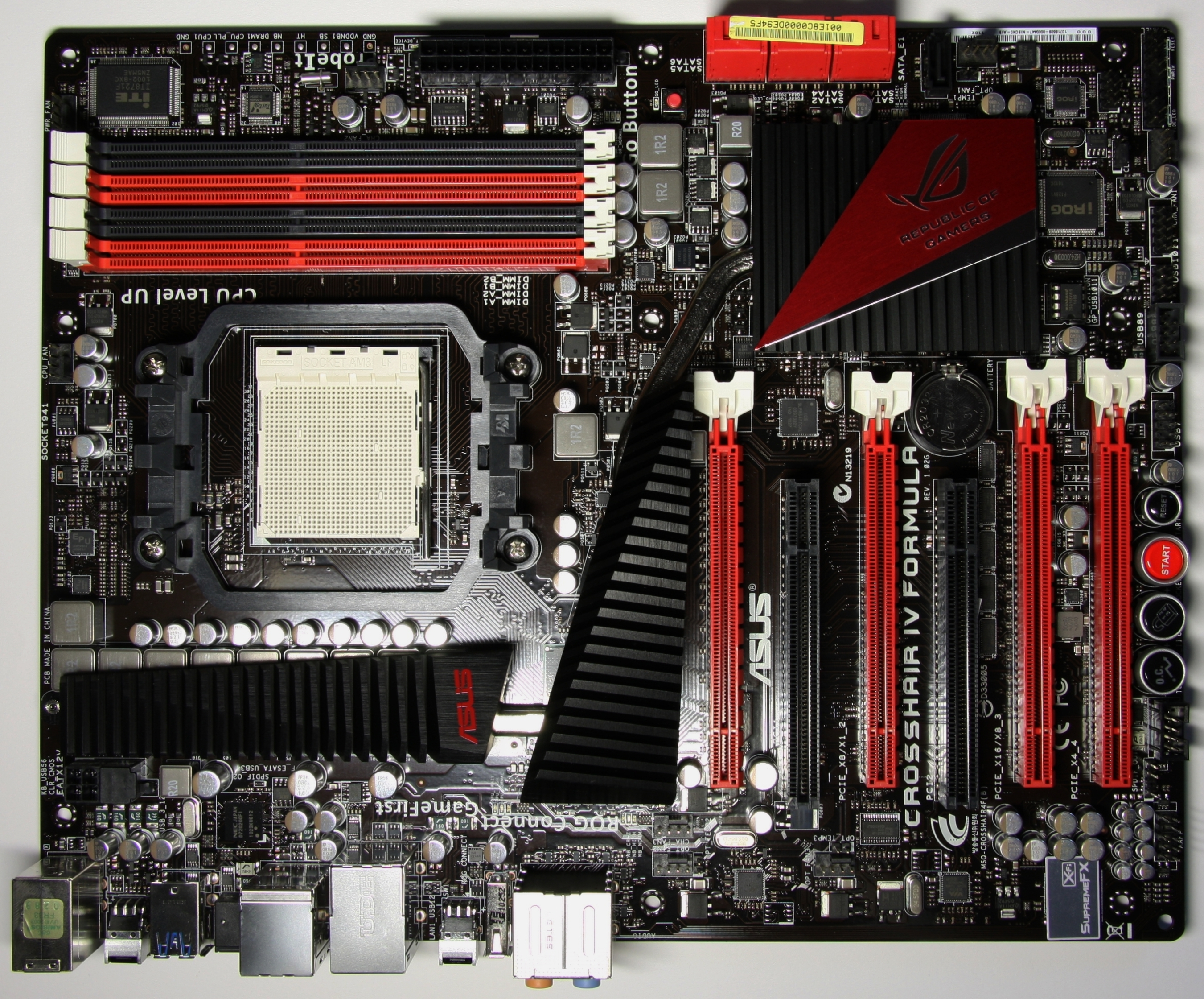 A Crosshair IV Formula mainboard by ASUS